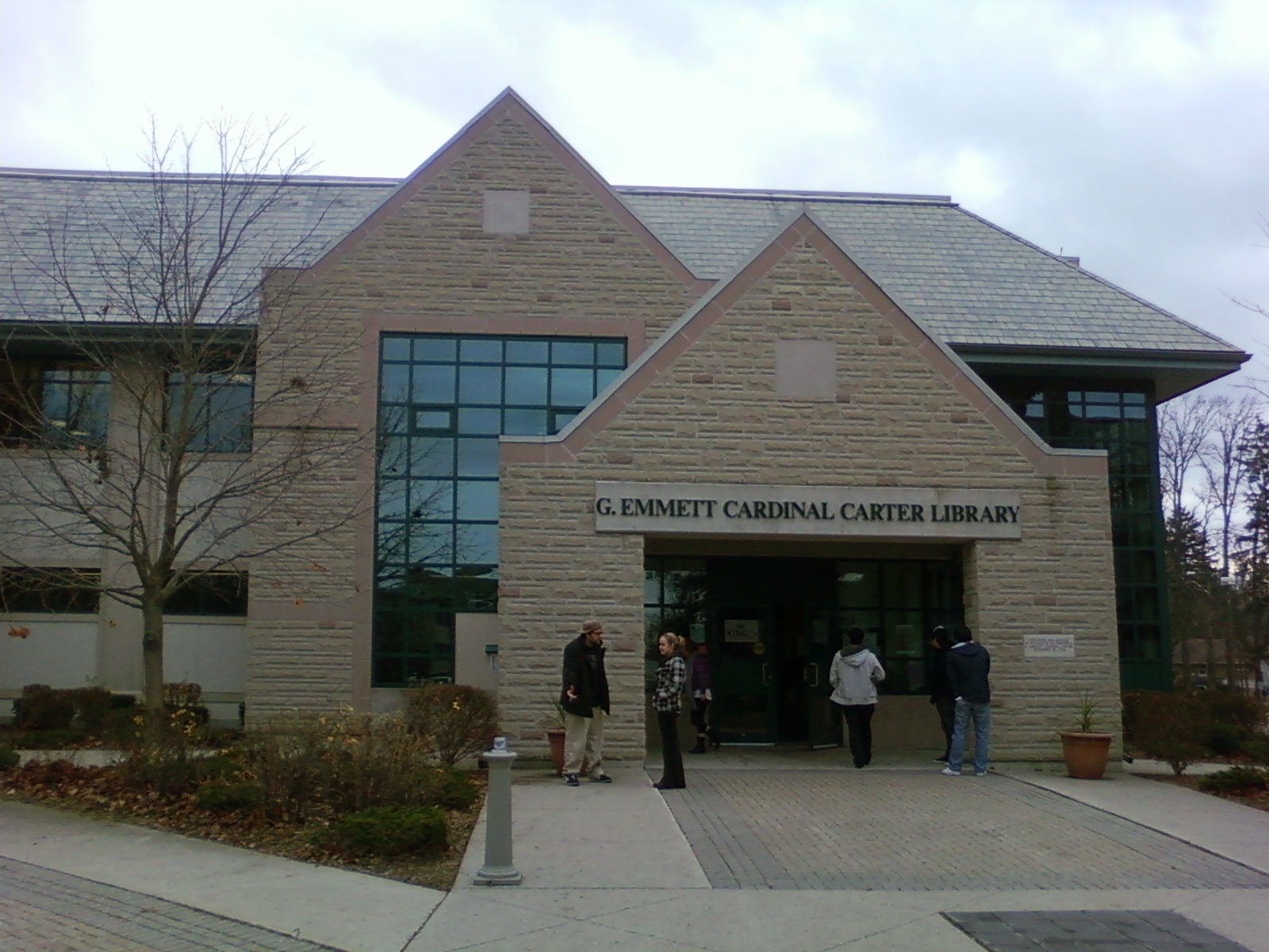 Image of the Cardinal Carter Library at King's University College (University of Western Ontario)